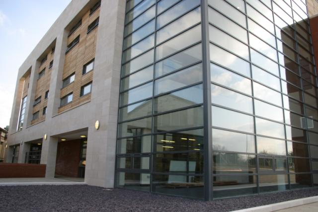 Sir Christopher Cockerall Building